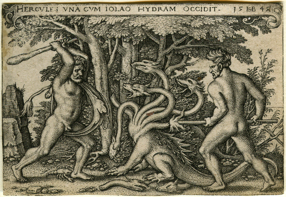 Hercules slaying the Hydra, 1545 (B.102, P.100 iv/iv) from The Labours of Hercules (1542-1548). Final state.